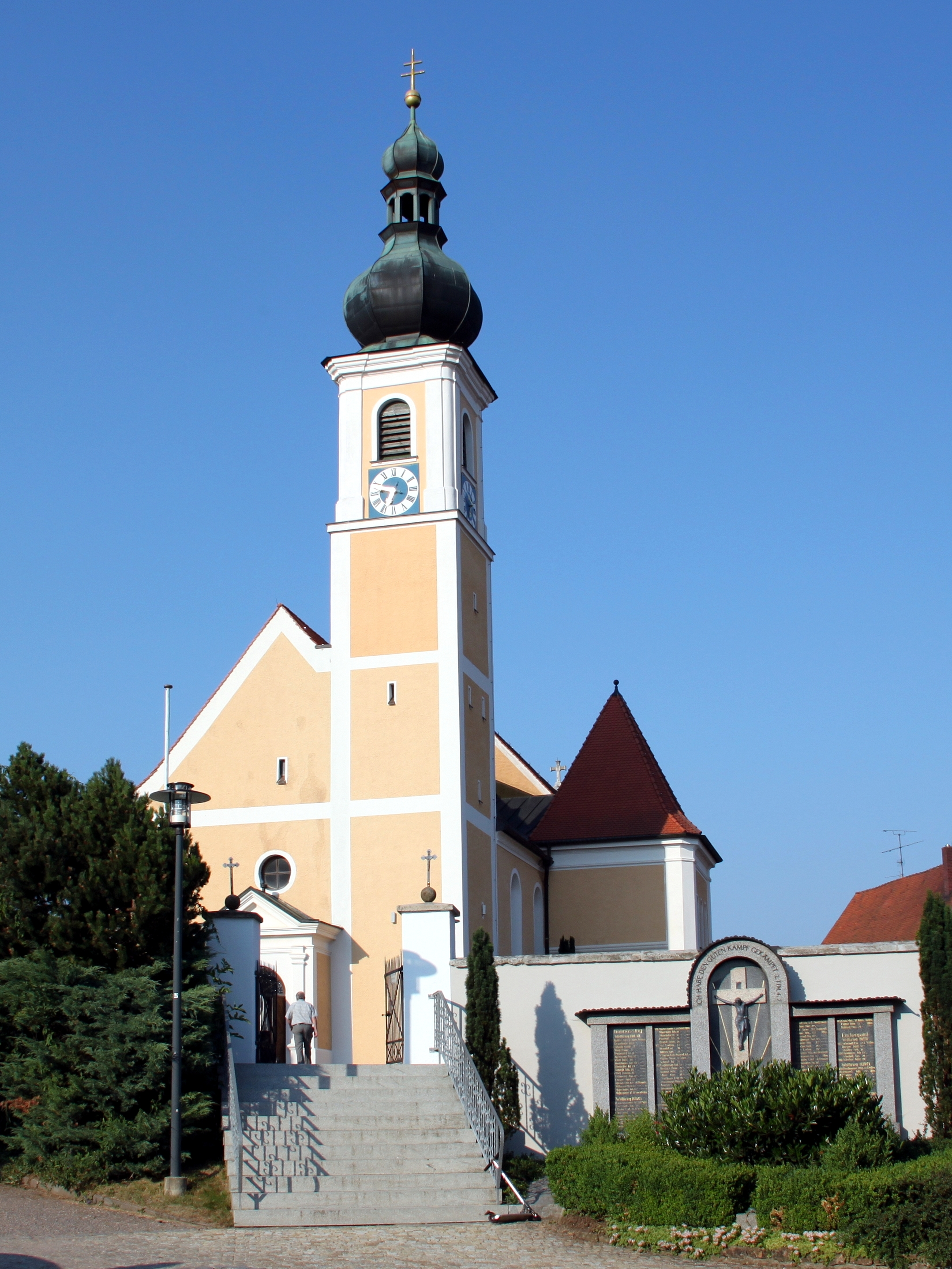 Thalmassing: St. Nikolaus (Saint Nicholas) Church